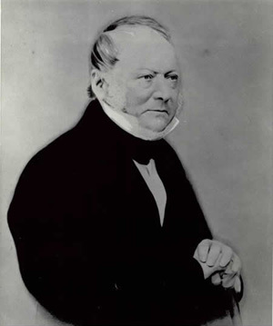 This is an official photo for the U.S. Army and is in the public domain.